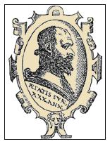 portrait of Don Jerónimo Sánchez de Carranza at the age of 30 ("aetatis suae xxx ann."), the "Father of Spanish Fencing" and author of "Of the Philosophy of the arms, of its art and the Christian offense and defense" (1582)